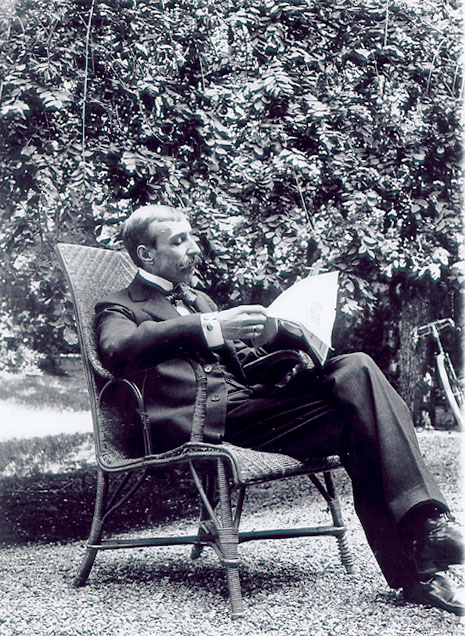 Eça de Queirós sitting on a chair before 1900.